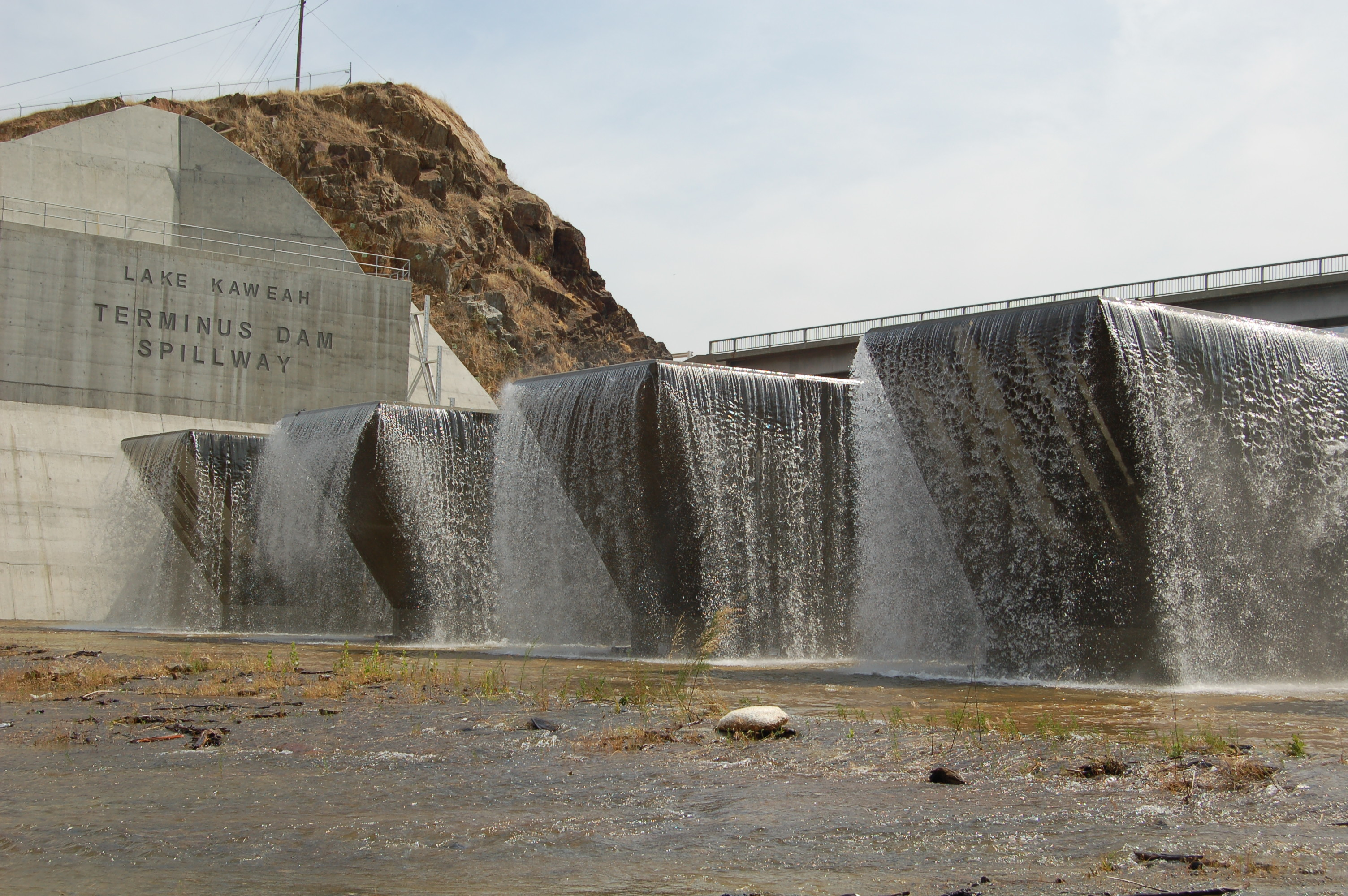 Terminus spillway equiped with fusegate